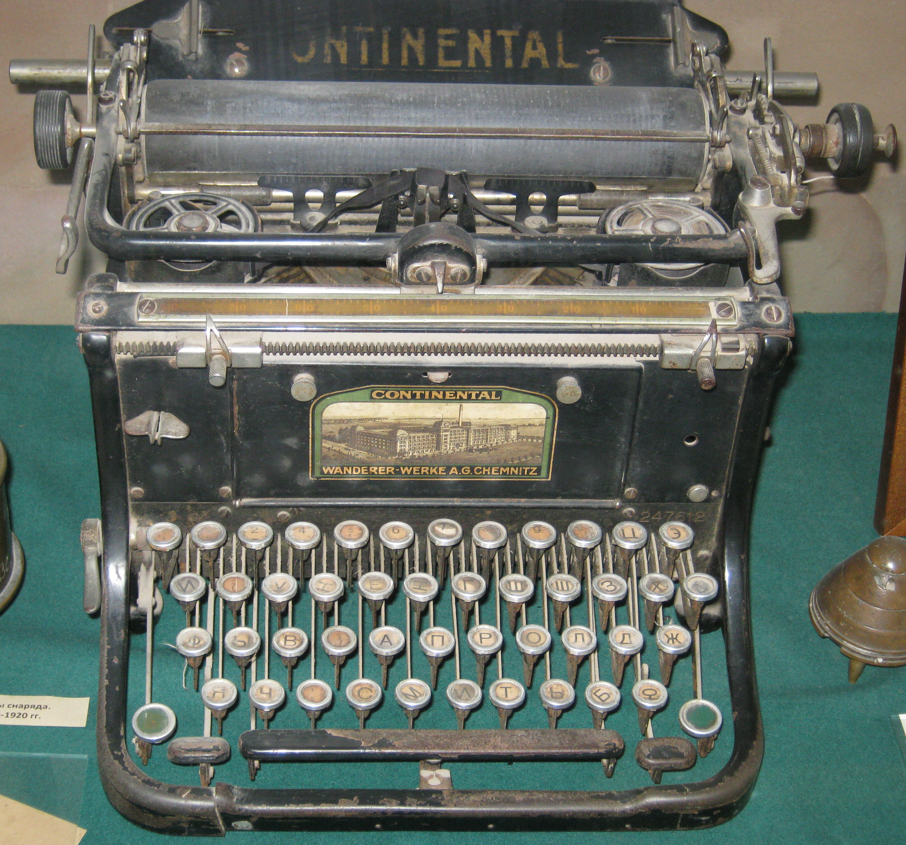 Old typewriter Continental, which erased Russian letters forbidden after the reform of 1917-1918, and hard sign «Ъ».